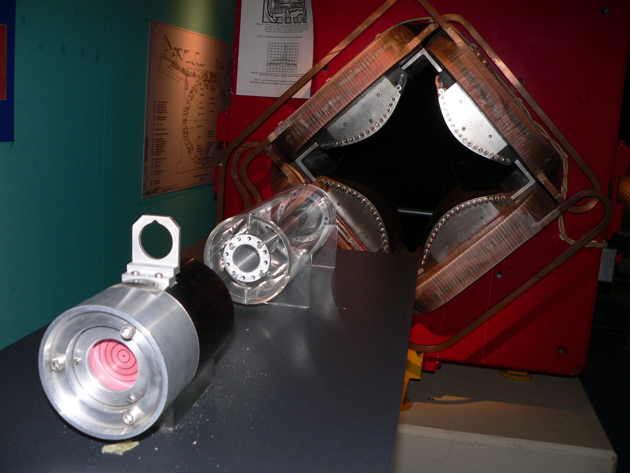 In 1981-1984, the Super Proton Synchrotron operated as a proton-antiproton collider. In the foreground there is the target of the protons, in which there were created antiprotons for the proton-antiproton collider of CERN. In the middle ... In the backgroud there is a quadrupole magnet for focusing (anti)proton beams. "Microcosme" exposition at the CERN